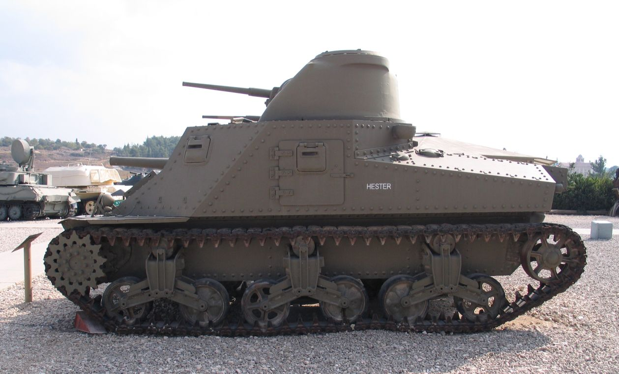 Description: M3 Lee medium tank in Yad la-Shiryon Museum, Israel. 2005. Source: Photo by me, User:Bukvoed.